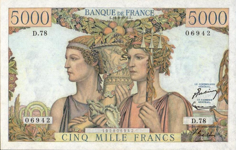 France 5000 francs terre et mer 01